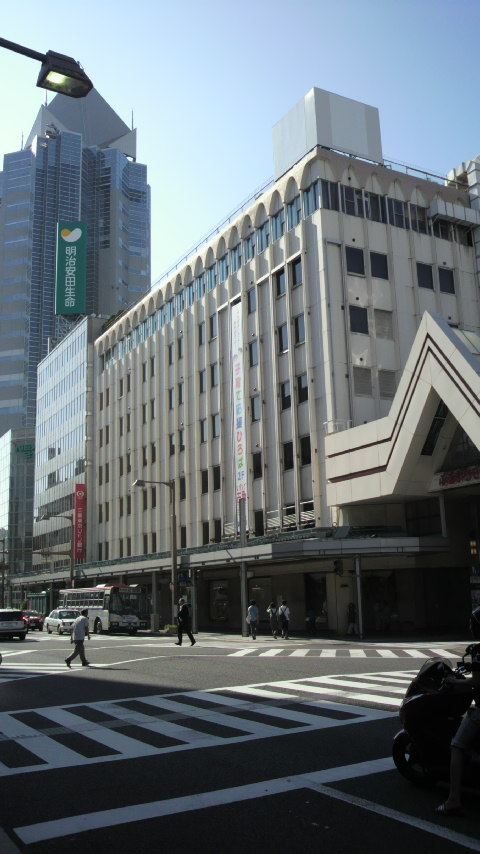 Closing Niigata Daiwa Department store